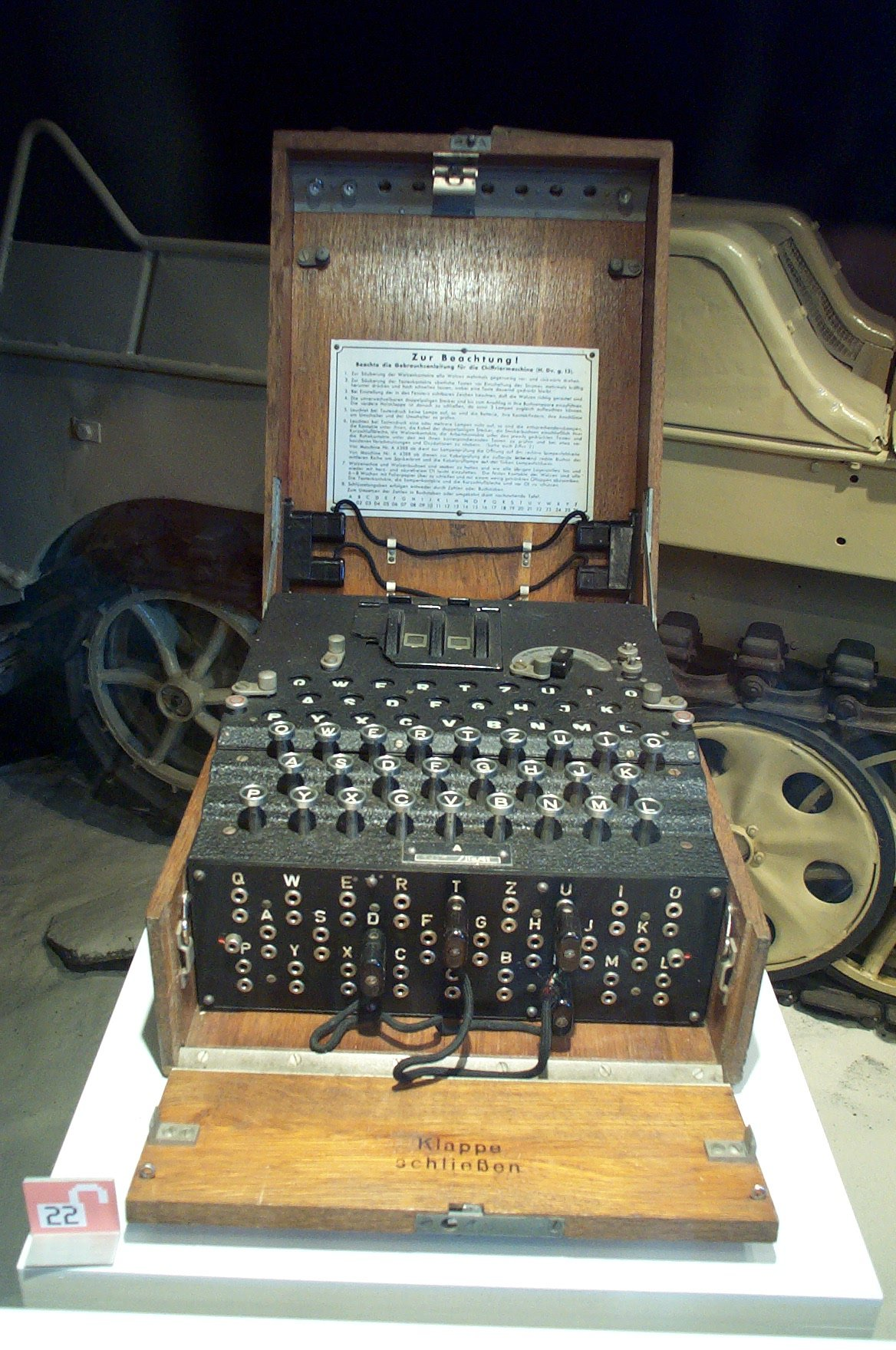 Enigma machine shown at the Swiss Transport Museum, Lucerne